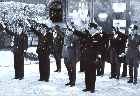 Delegation of Independent State of Croatia in Rome 1941, Treaty of Rome